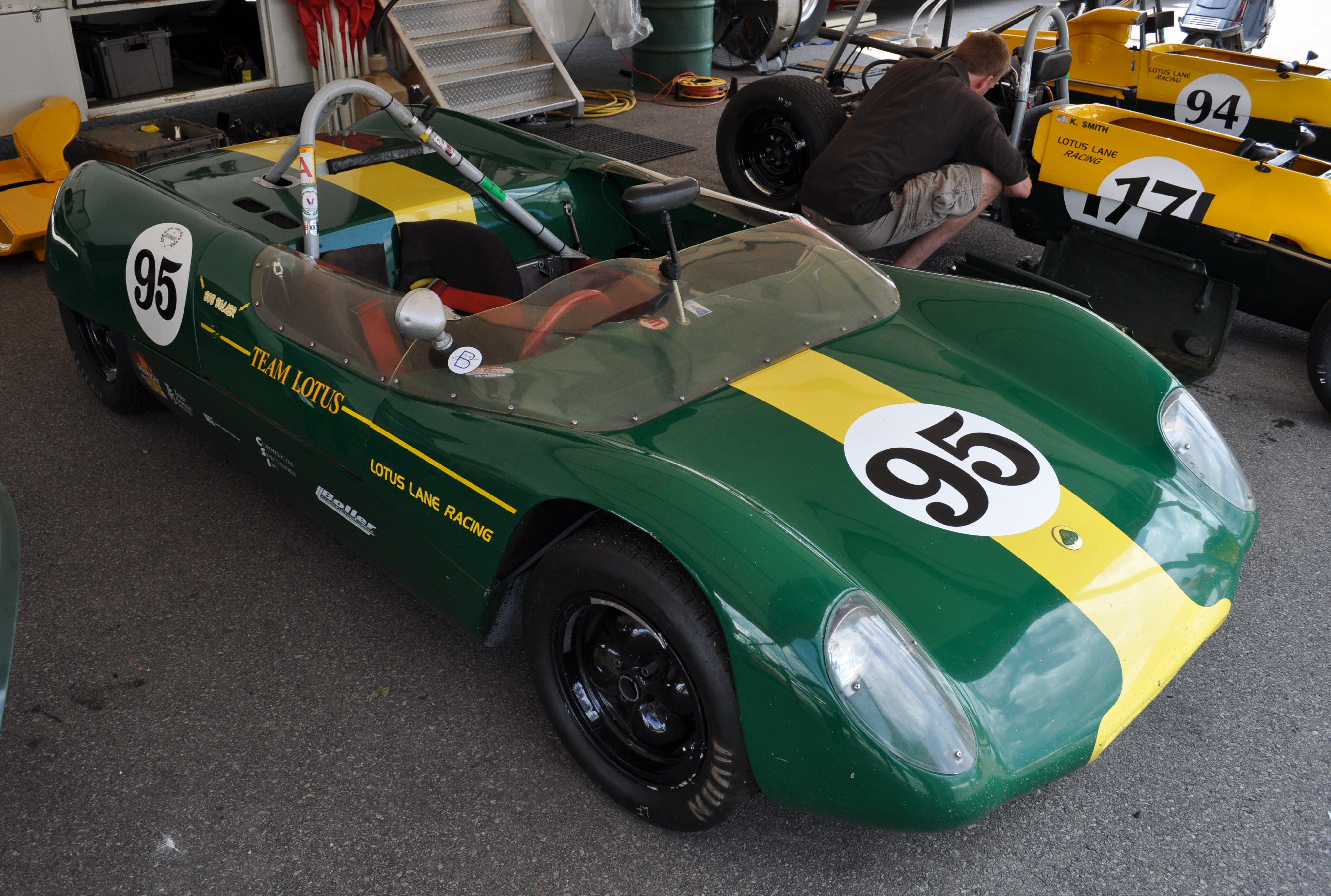 A Lotus 23B sports racing car, in the paddock at Circuit Mont-Tremblant during the 2010 Legends of Motorsport meeting.